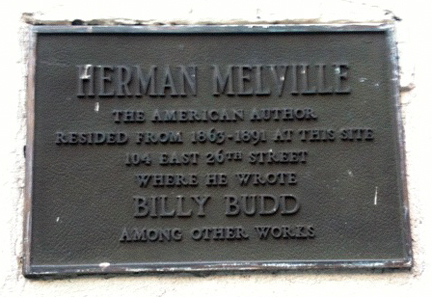 Photograph of the plaque outside 104 East 26th street, New York—former residence of Herman Melville